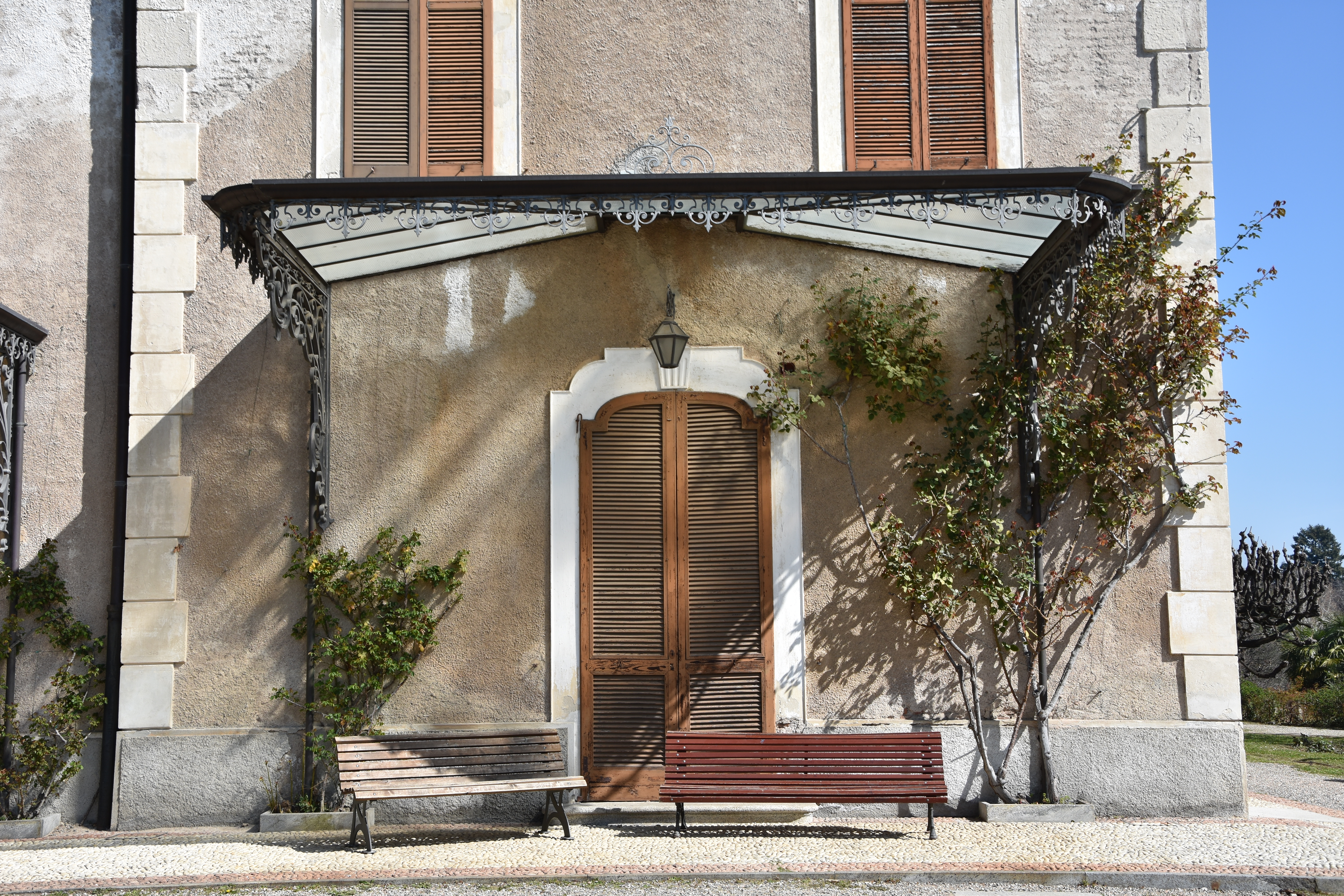 Villa Mylius in Varese, Italy.